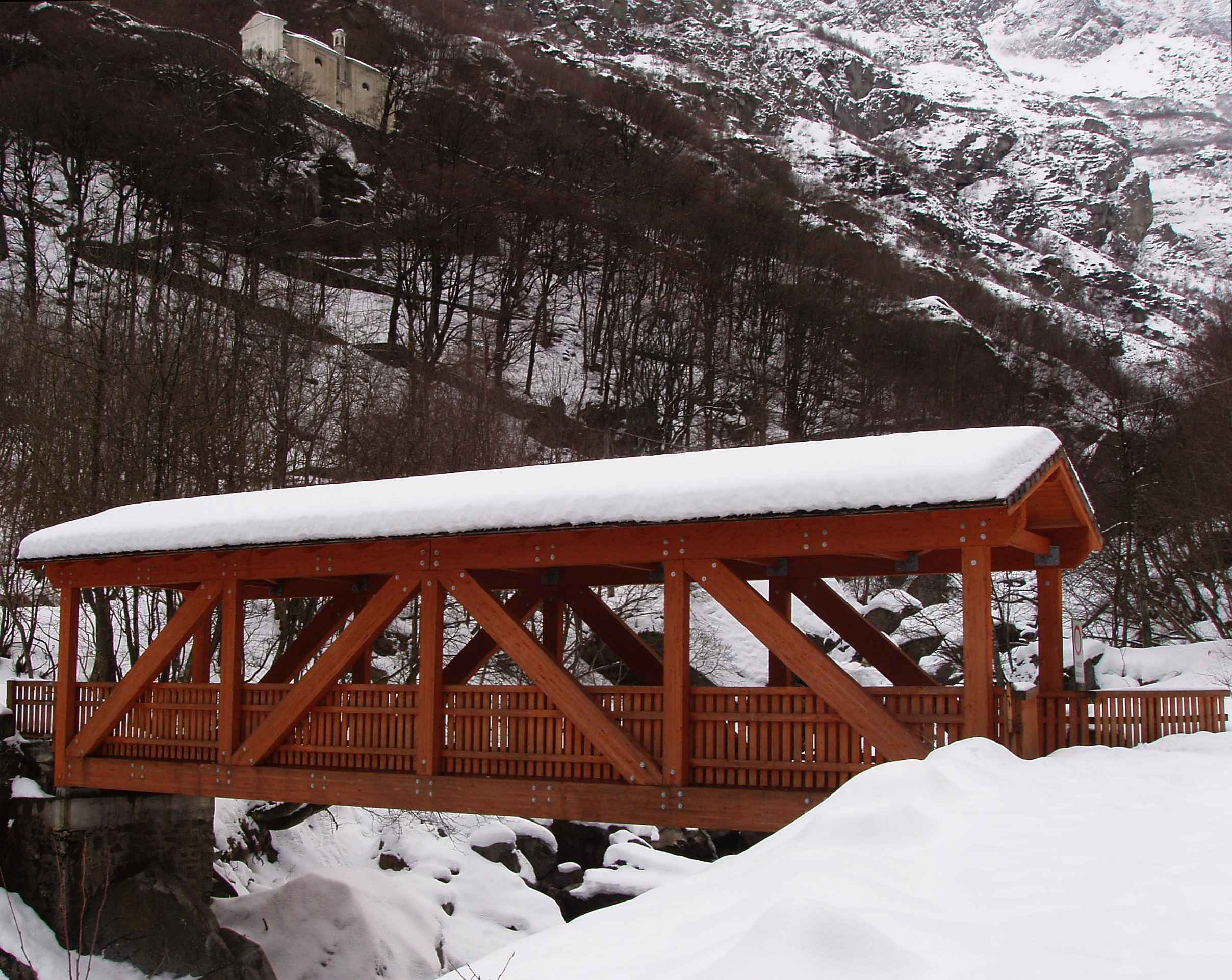 Bridge on the Stura di Sea (Forno Alpi Graie, TO, Italy)